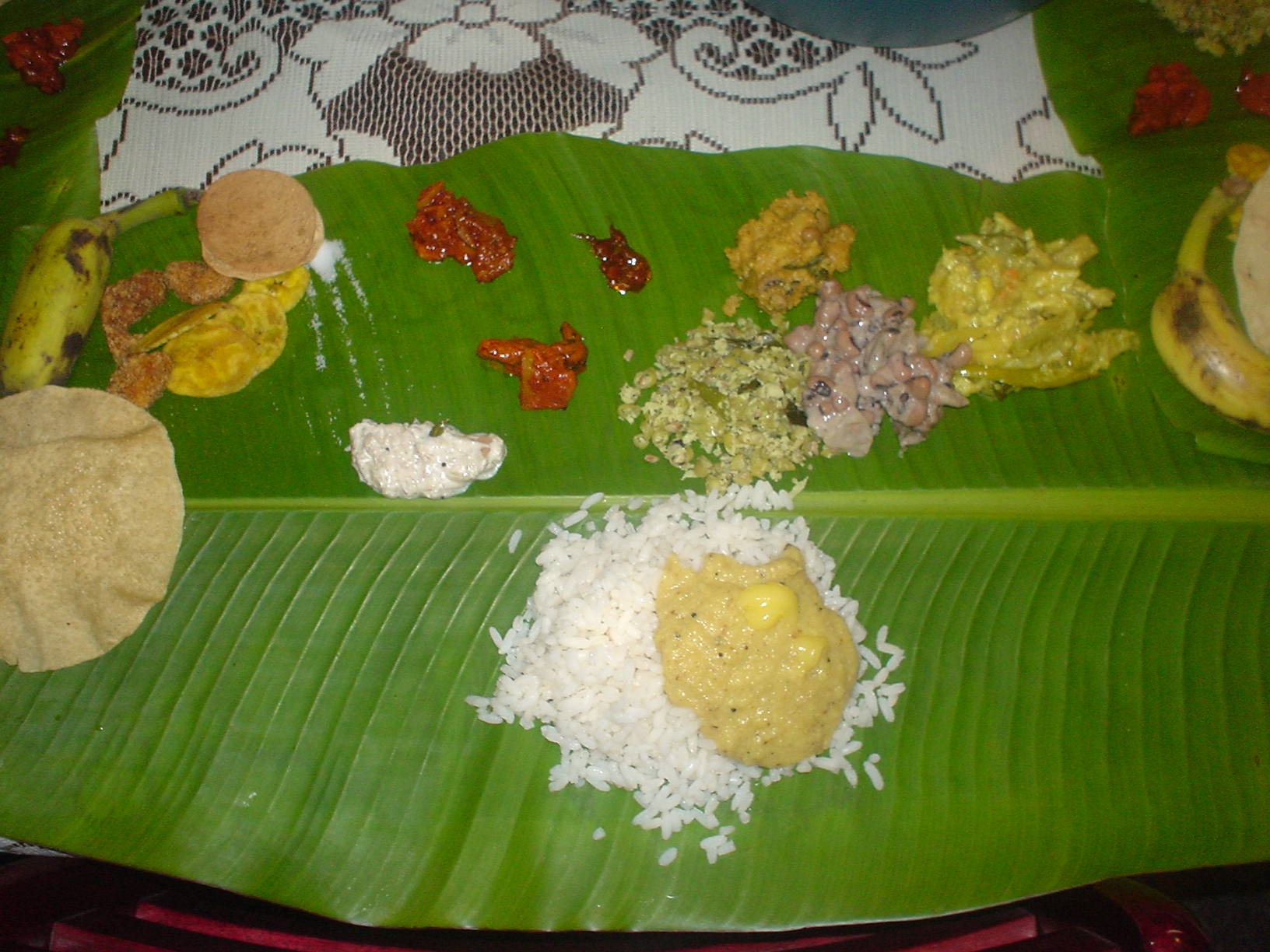 Picture of traditional Kerala feast